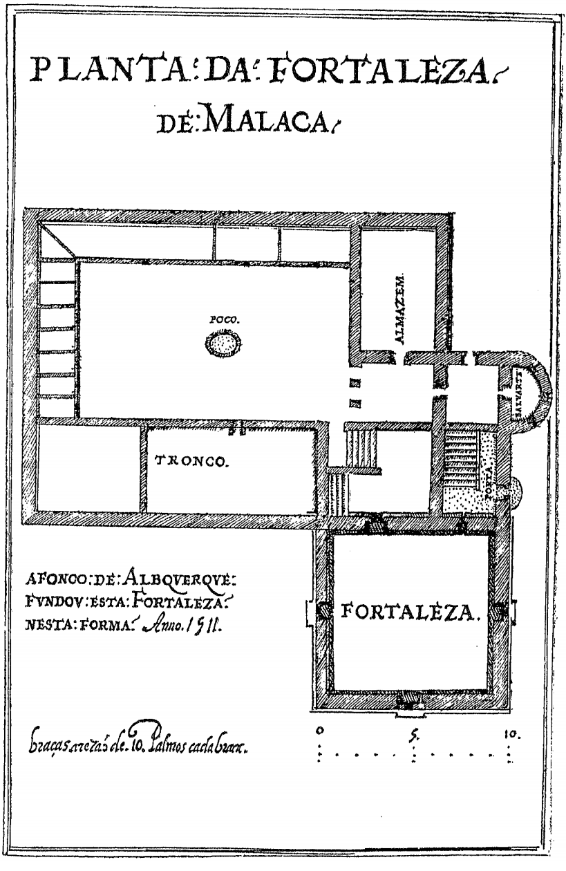 A floorplan of the original fortress erected by the Portuguese after capturing the city of Malacca in 1511, as drawn by the Portuguese-Malay carthographer Manuel Godinho de Herédia in 1604. The plan includes the location of the prison (tronco) and magazine and storeroom (almazém)